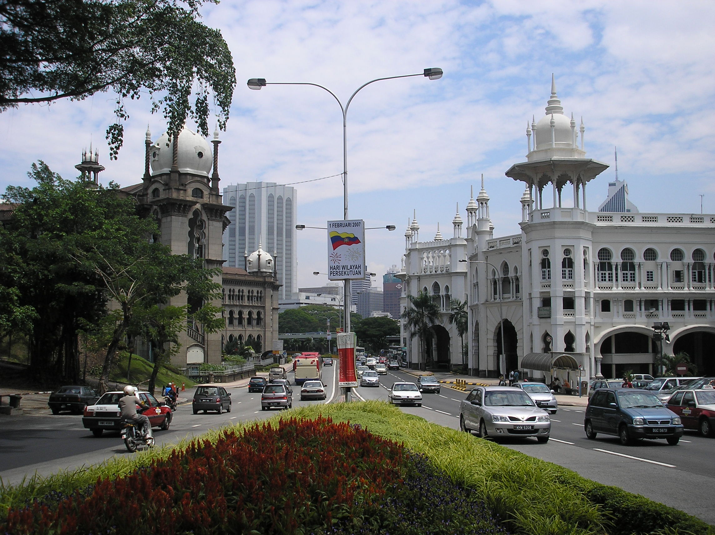 The southern half of Jalan Sultan Hishamuddin (formerly part of Damansara Road) in central Kuala Lumpur, Malaysia, as seen towards the north. The old Kuala Lumpur railway station is visible to the right, while the Malayan Railway (Keretapi Tanah Melayu) administration building is visible to the left.